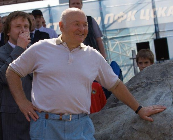 Yuri Luzhkov at the broking ground of the new PFC CSKA Moscow stadium